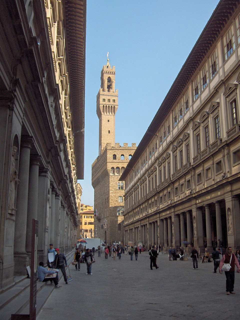 View on the Uffizi and Palazzo Vecchio; Florence, Italy Own photo - photo made by Georges Jansoone on 13 October 2005